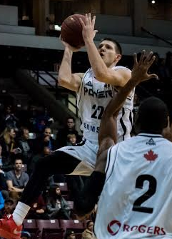 Mississauga Power rookie Jordan Weidner goes for the shot in 2015 against the London Lightning.